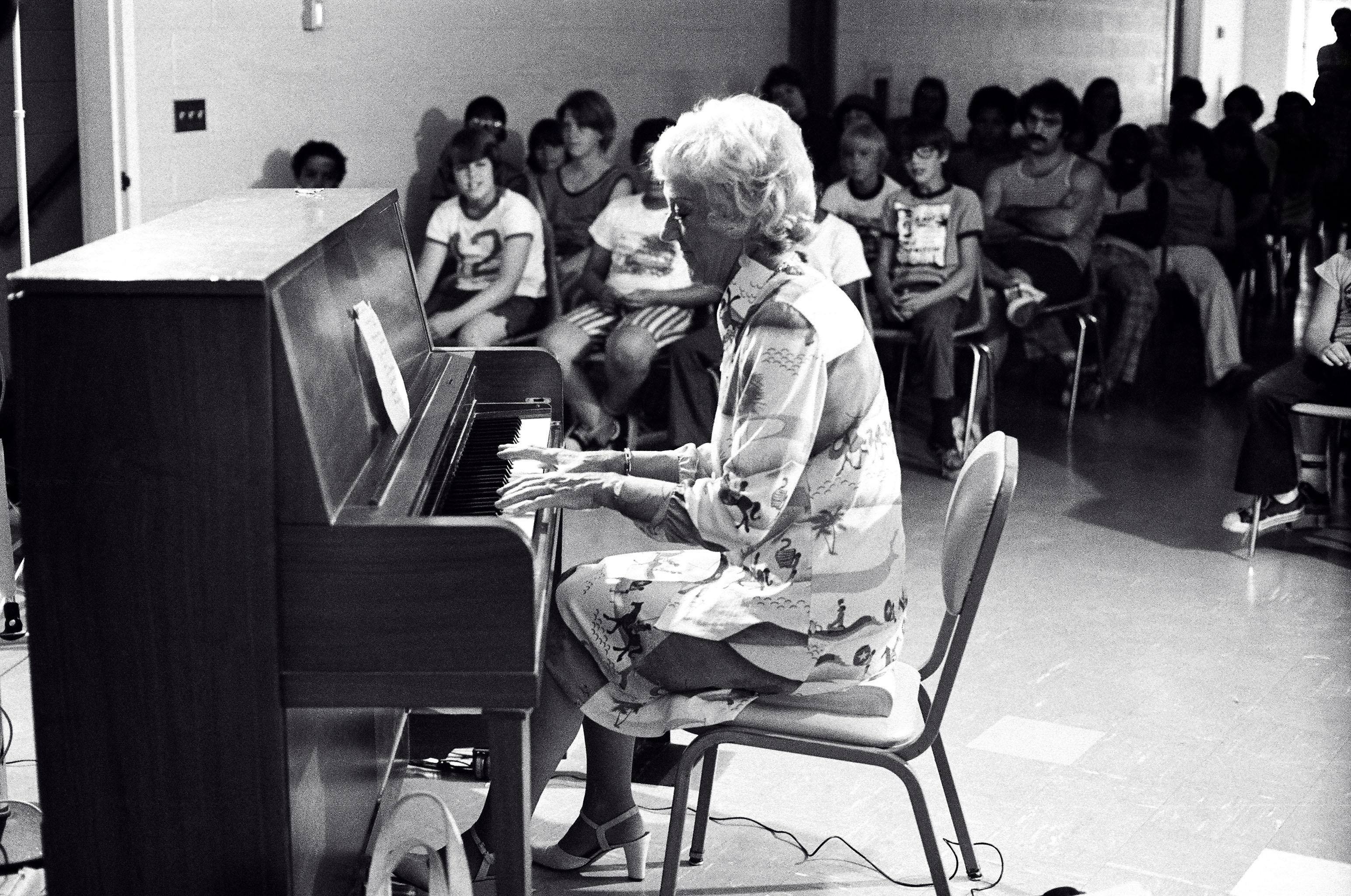 Marian McPartland at St Joseph's Villa school for disadvantaged children - Rochester, N.Y. 1975